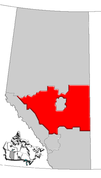 Map of Central Alberta, Canada